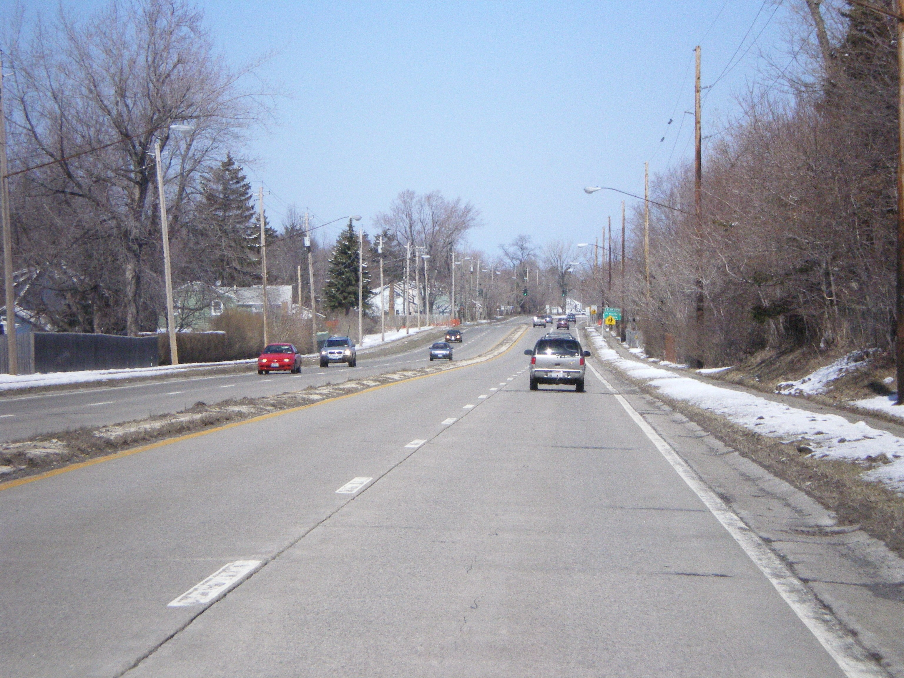 Approaching Point Pleasant Road on northbound New York State Route 590 in Irondequoit. This image was taken in March 2008, prior to the start of the Sea Breeze Drive project. Also see File:NY 590 north at Pt Pleasant Rd June 09.jpg, taken during construction.